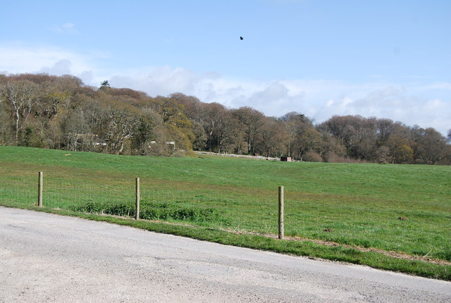 Lulworth Park Parkland surrounding Lulworth Castle.